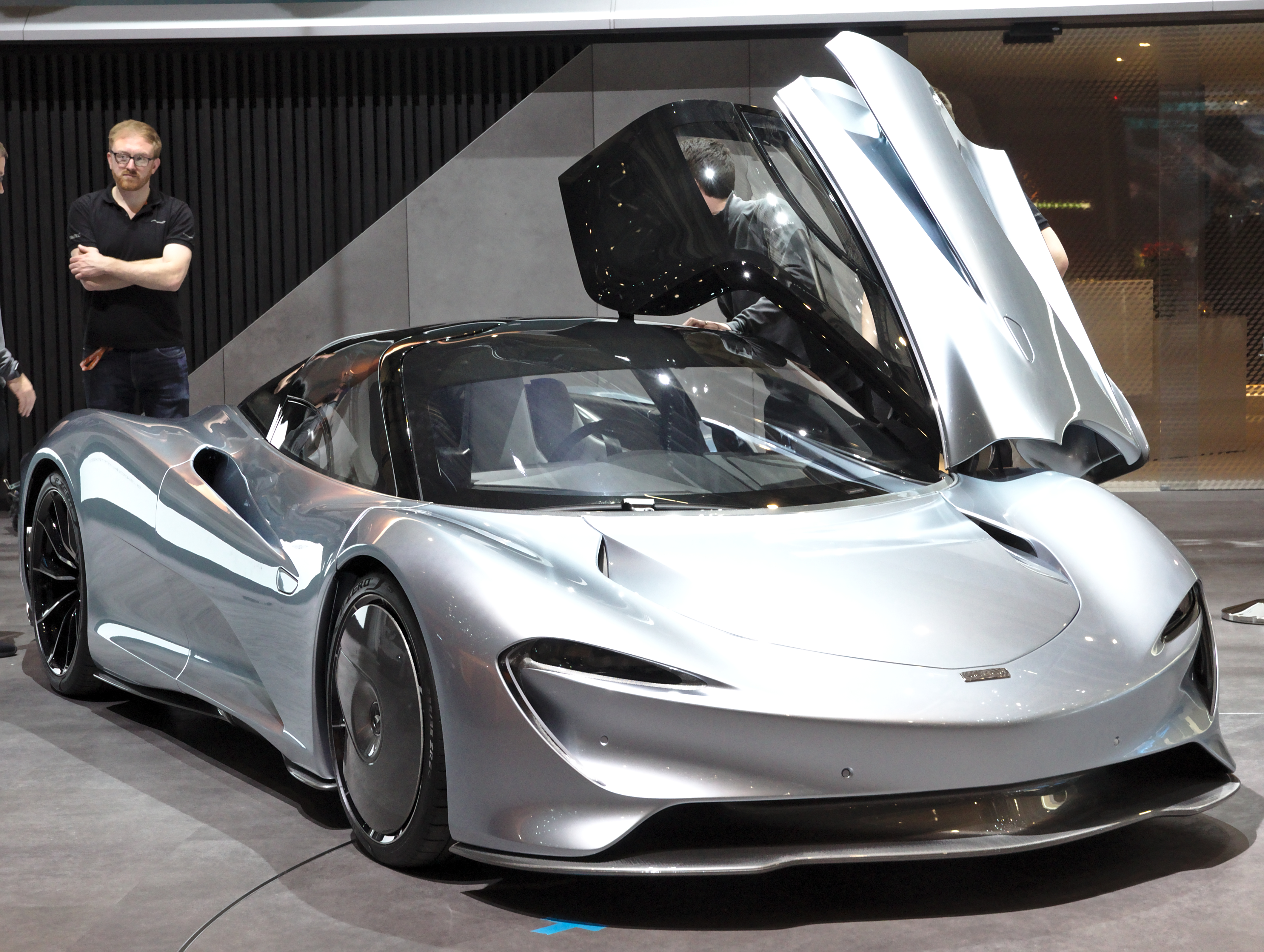 McLaren Speedtail at Geneva Motor Show 2019